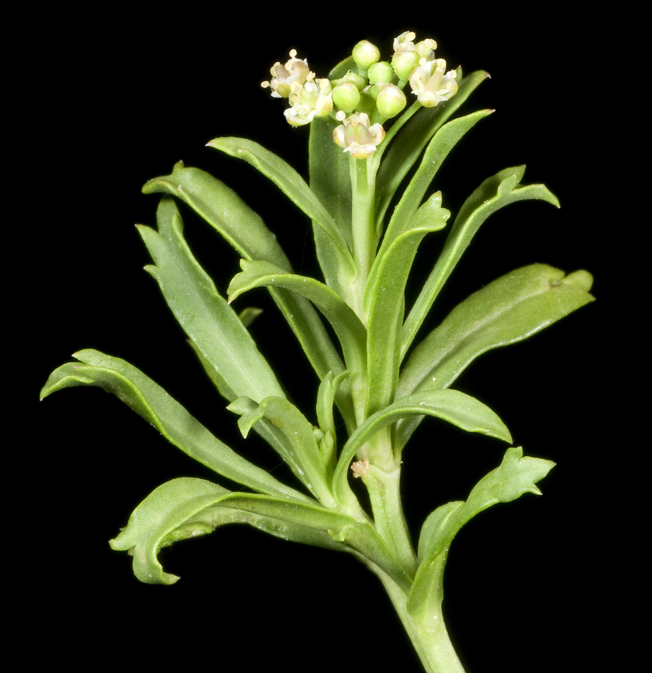 Carnac Island Western Australian Herbarium